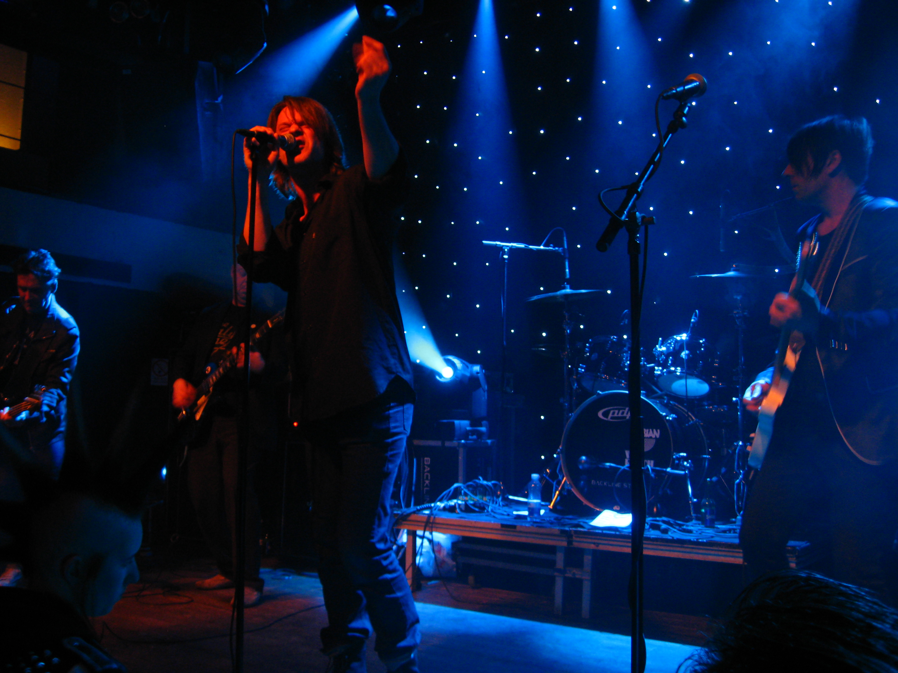 Warheads playing at Punkgala in Stockholm, April 2010.